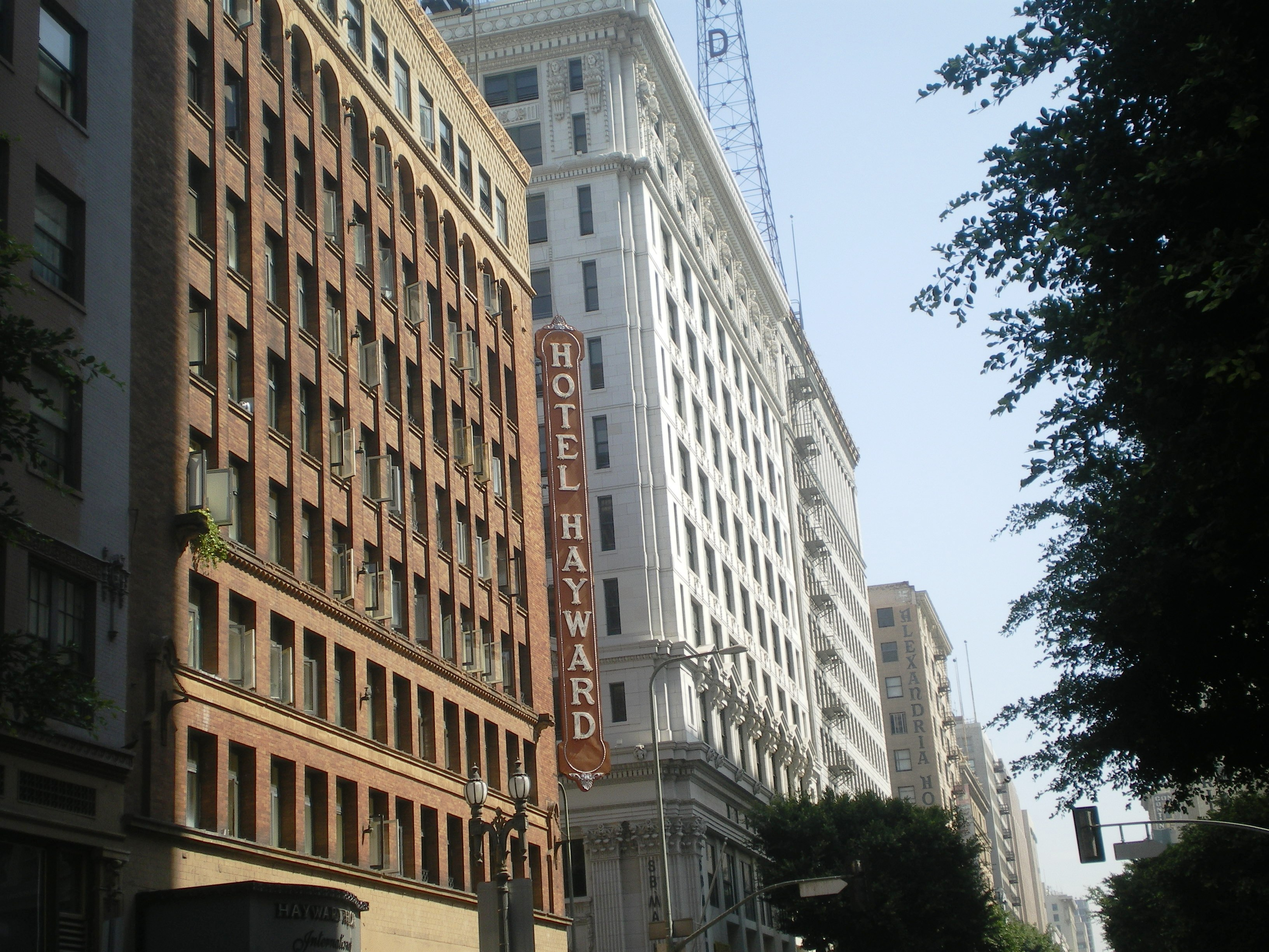 Spring Street Financial District — looking north from Hotel Hayward alone west side of S. Spring Street, Downtown Los Angeles, California. A historic district on the National Register of Historic Places in Los Angeles. Hotel Hayward (left) was built in 1925, and is a historic district contributing property.